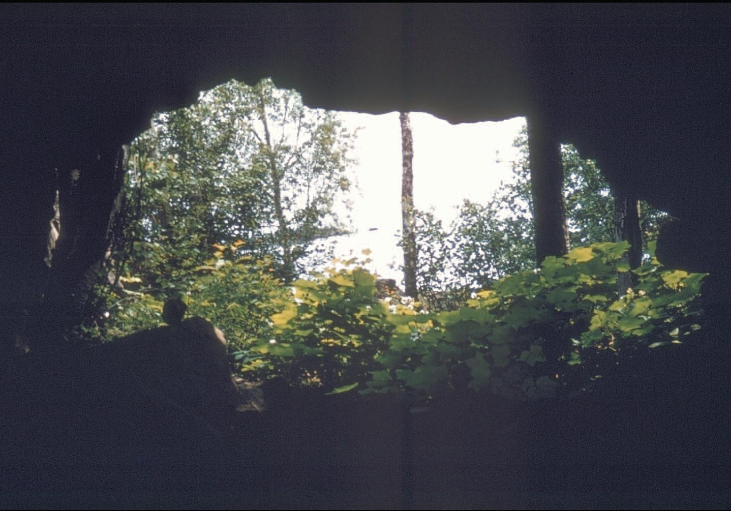 The Minong Mine — a historic copper mine on Isle Royale, in northern Michigan. A Historic district contributing property to the Minong Mine Historic District, and on the National Register of Historic Places in Isle Royale National Park and Keweenaw County, Michigan.